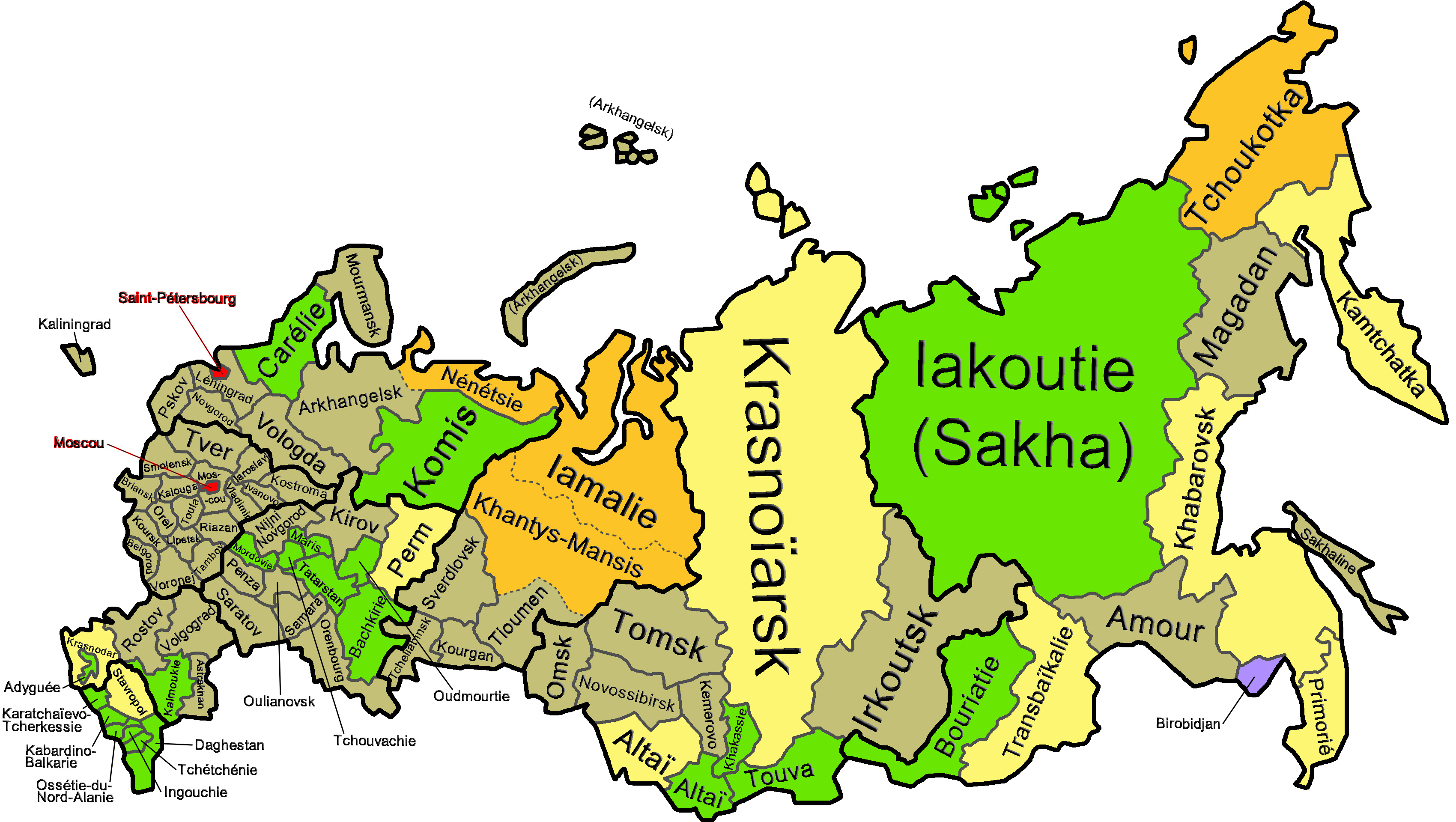 Map Federal subjects of Russia in 2020